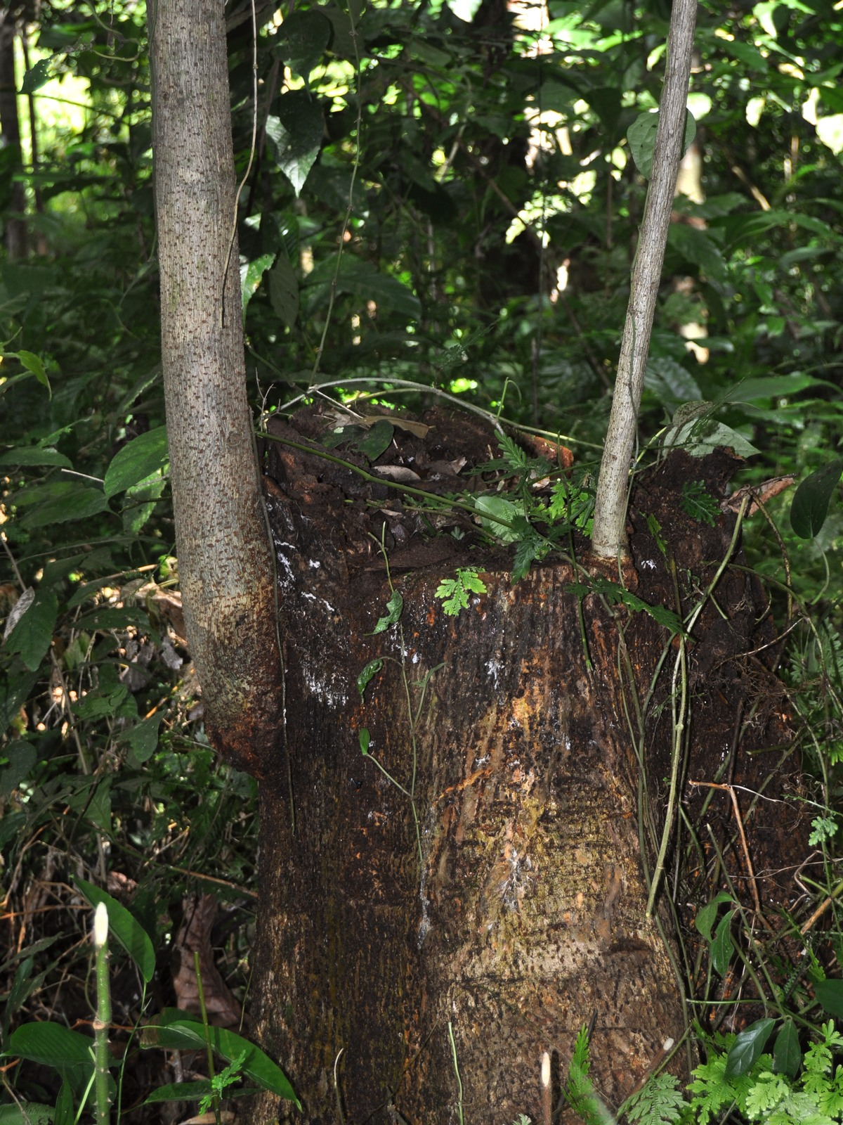 Bark and coppice of Upas (Antiaris toxicaria). From West Kalimantan, Indonesia.